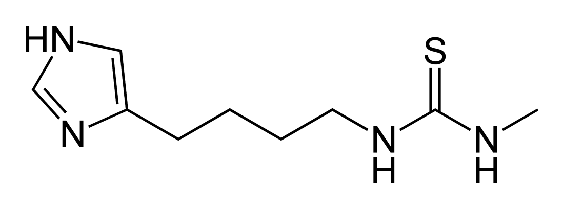 Skeletal formulae of burimamide, based on structural information from Clayden, Jonathan; Nick Greeves, Stuart Warren, Peter Wothers [2001] Organic Chemistry, Oxford University Press ISBN: 0-19-850346-6.